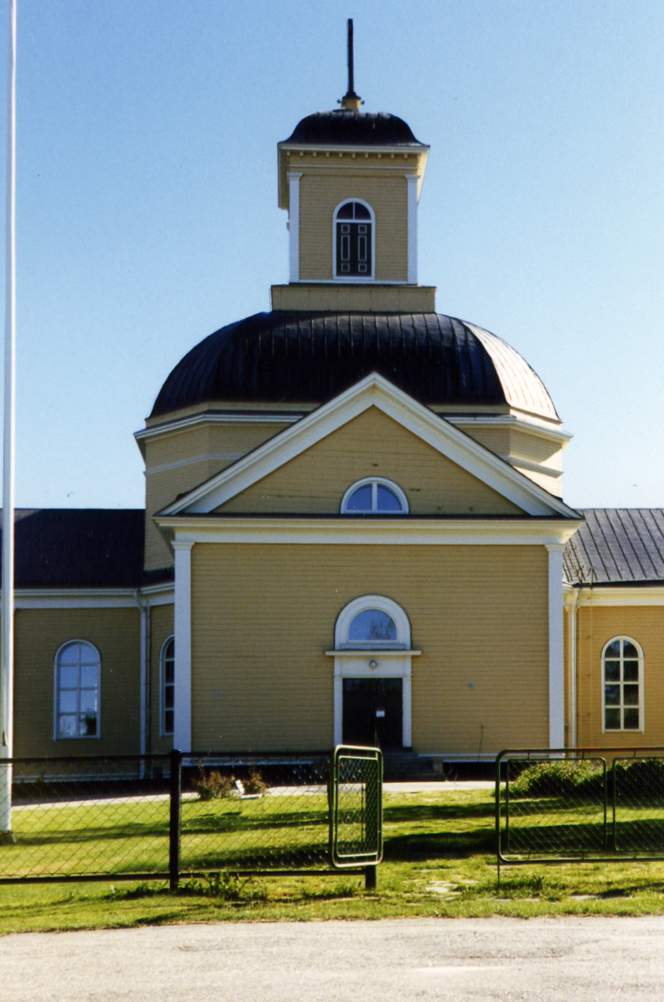 Kuhmo Church in Kuhmo, Finland